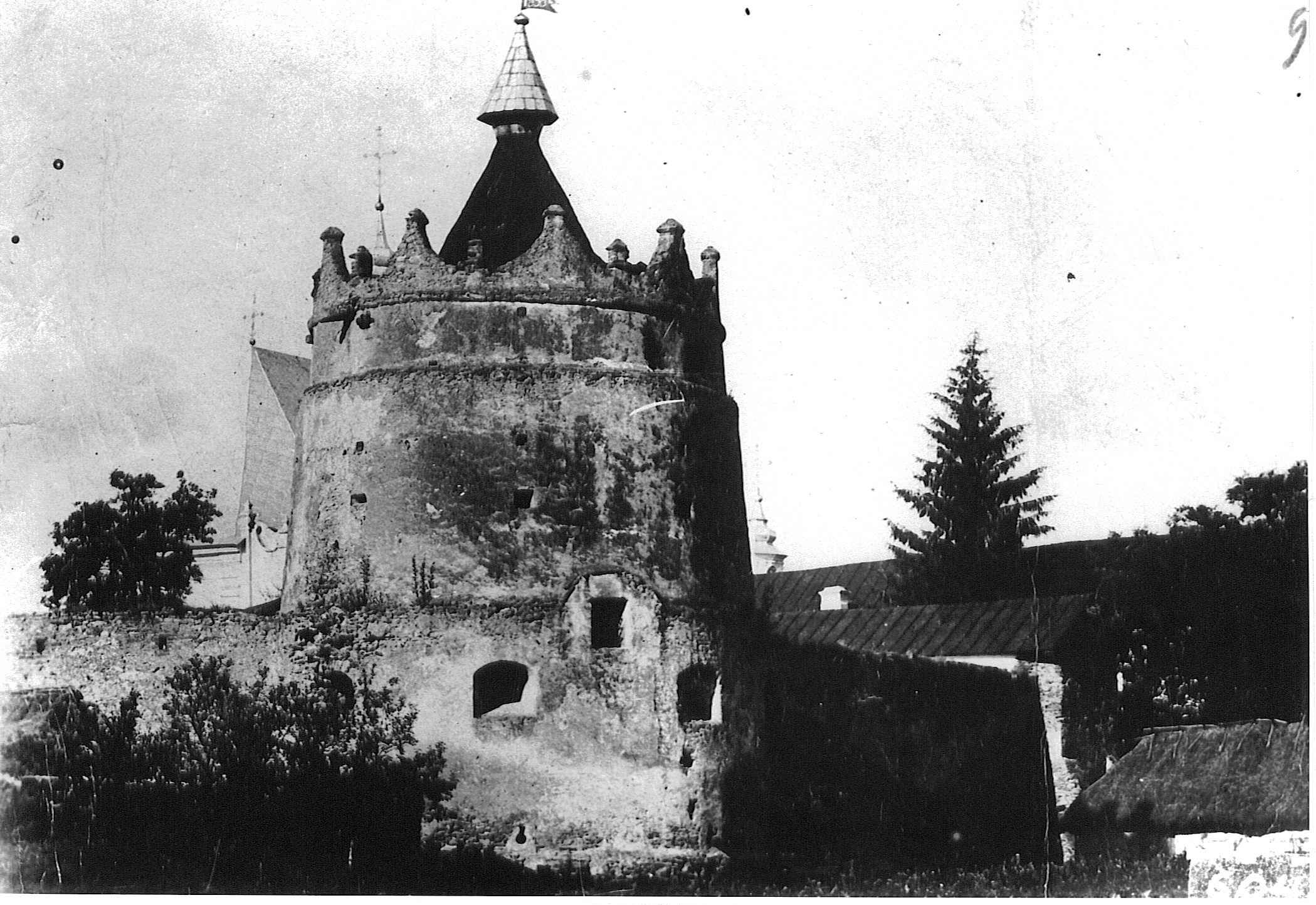 Key words: Letychiv, Castle Letichev Castle, photo taken 1917.